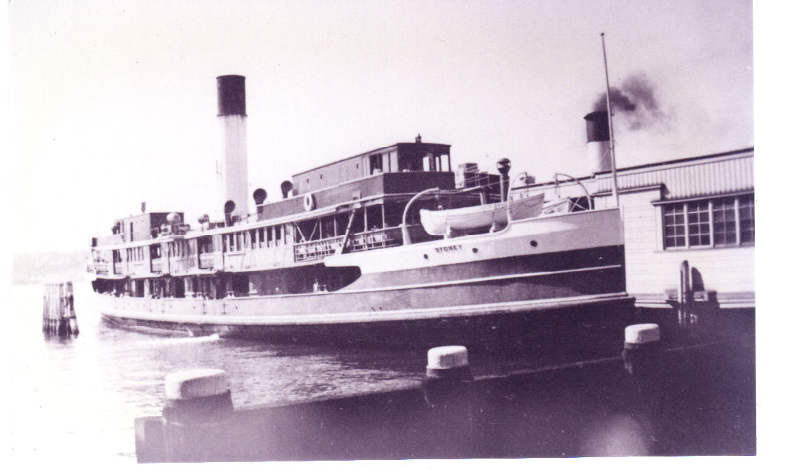 Manly ferry Balgowlah (1912 - 1953) at Circular Quay in later shape with enclosed upper deck and larger wheelhouses